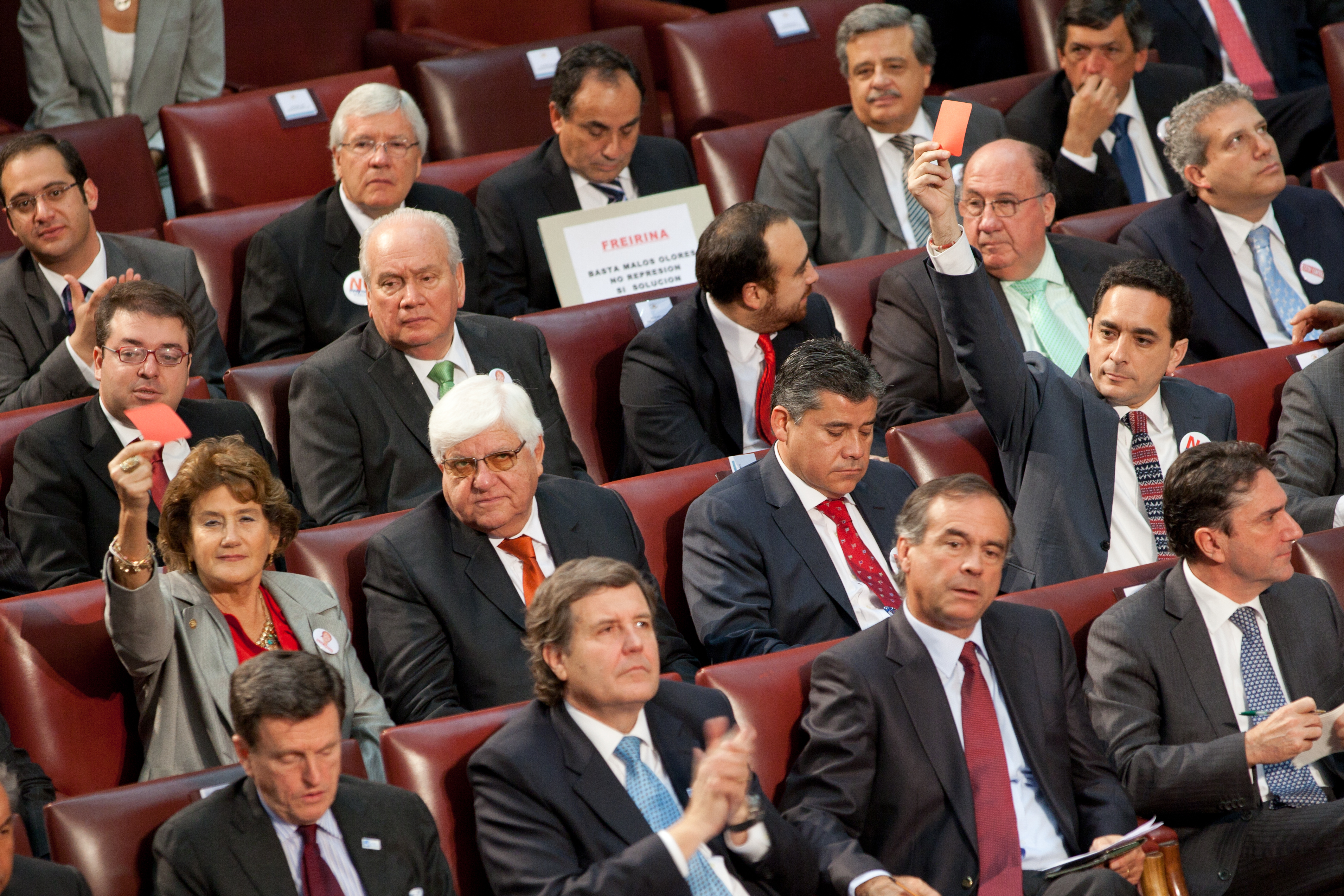 Photographic collection of the Library of the National Congress of Chile.